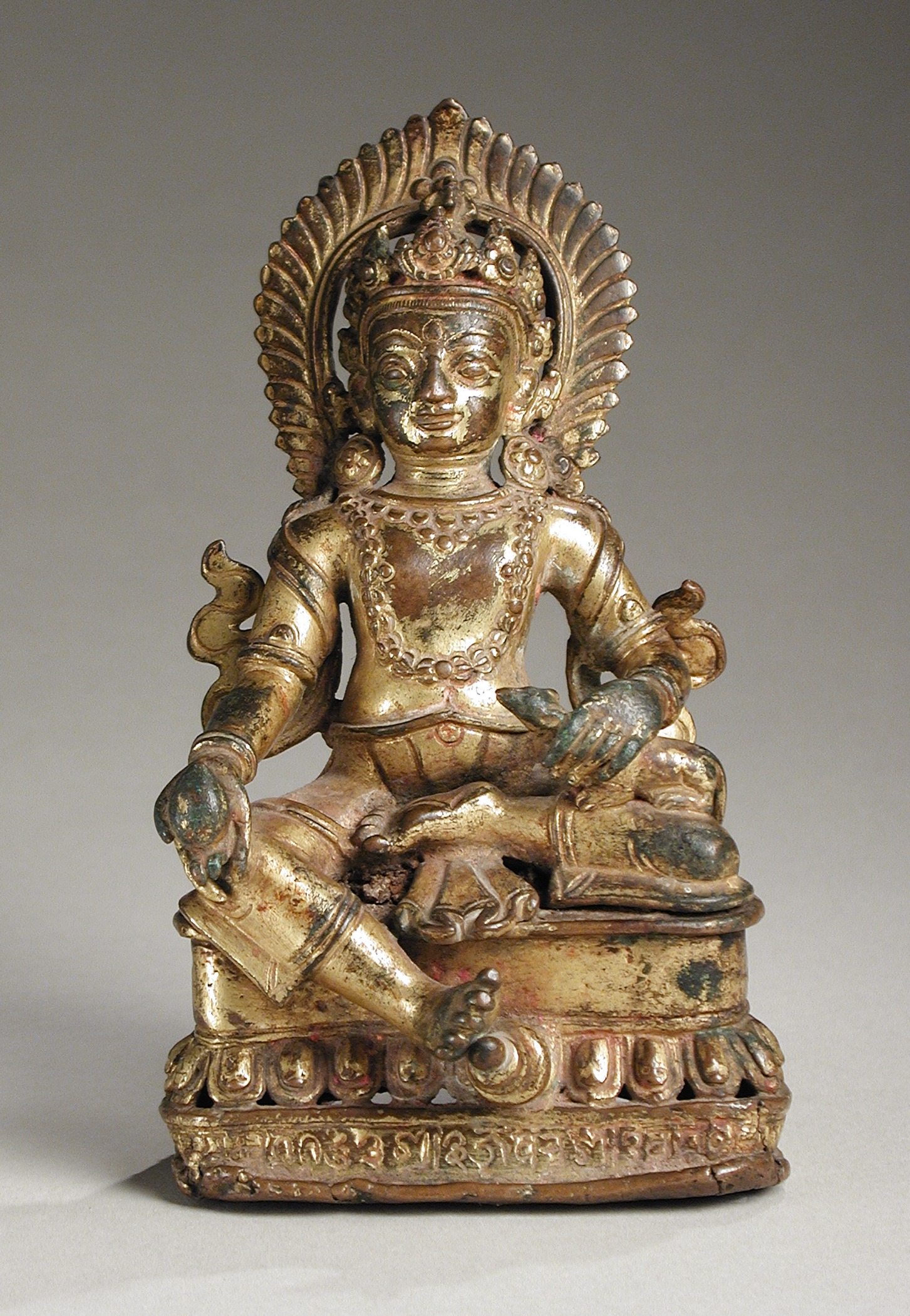 Nepal, dated 1643 Sculpture Gilt copper Purchased with funds provided by Jo Ann and Julian Ganz Jr. (M.86.61.3) South and Southeast Asian Art